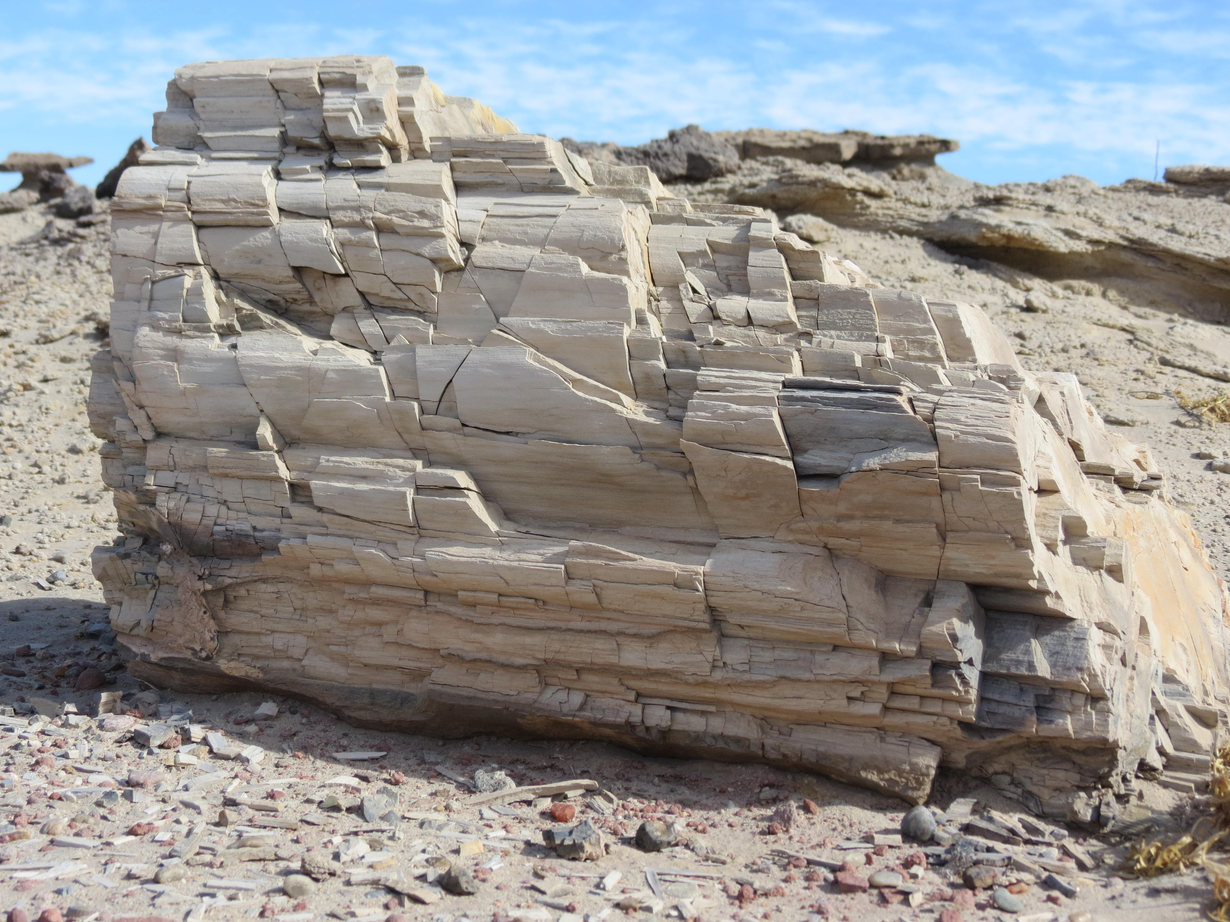 Tronco fosilizado del Parque Provincial Ischigualasto, correspondiente a una especie que se considera antecesora de las actuales araucarias.